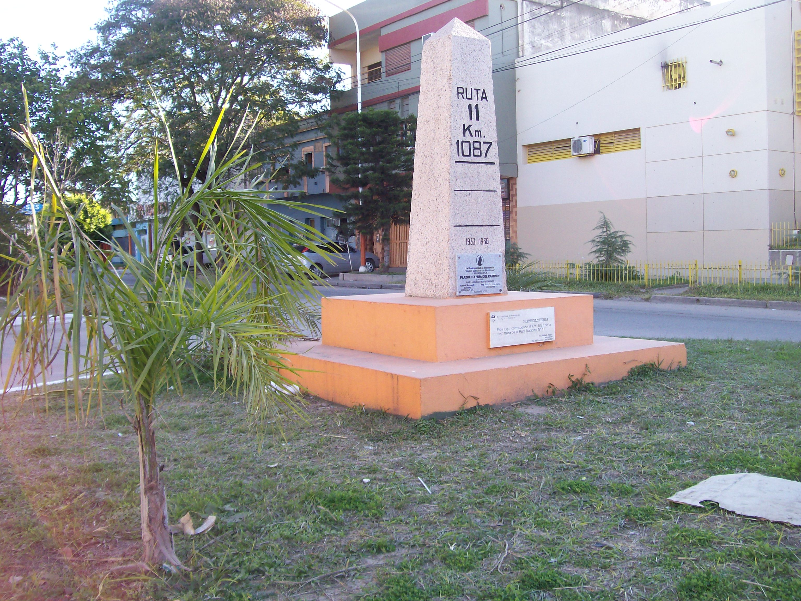 Monolith in a small square in current Mac Lean Av. (crossroad with 25 de Mayo Av.), in Resistencia, Chaco, Argentina. It remembers old trace of National Route 11 (Argentina).